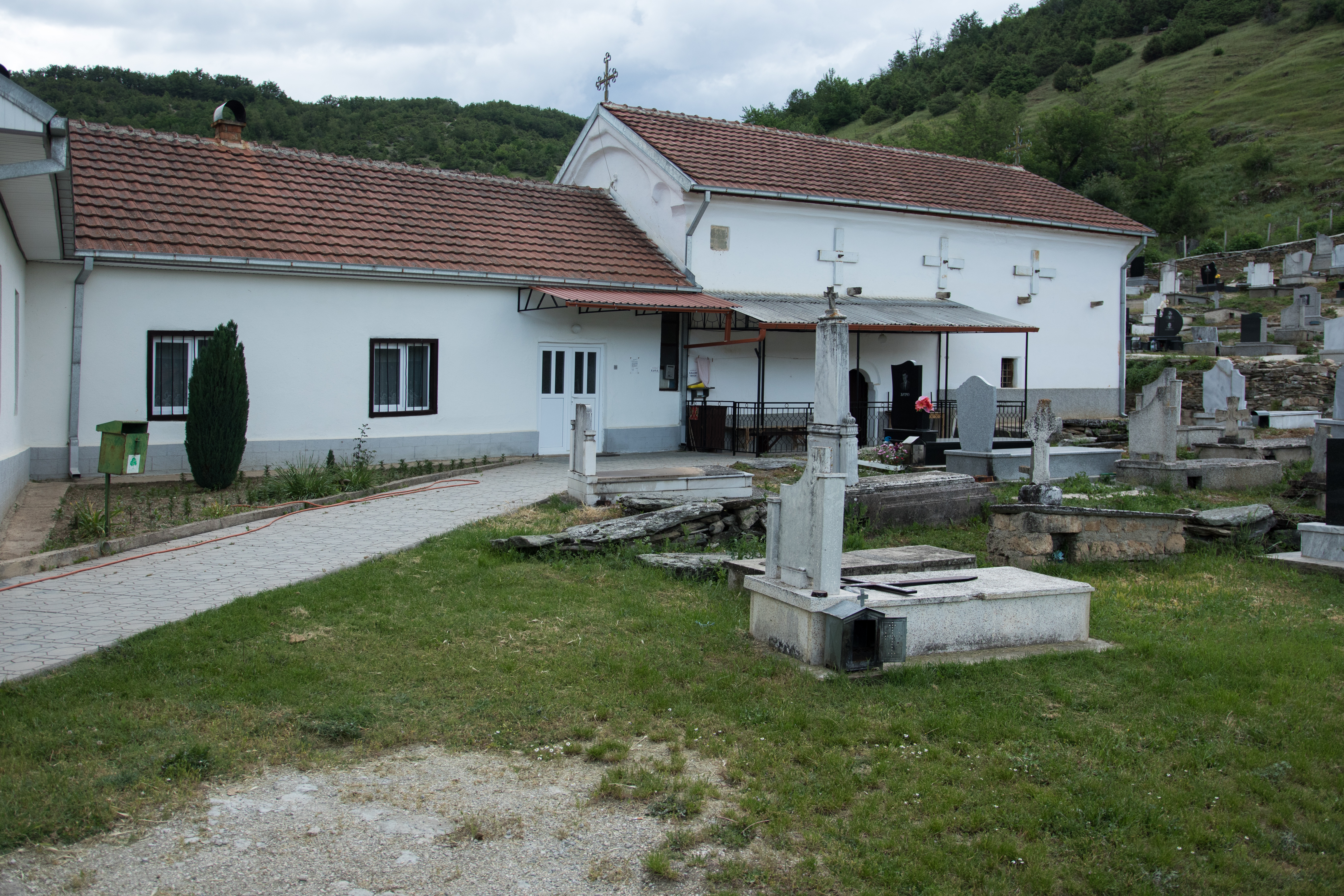 View of the St. Nicholas Church in the village Sopotnica